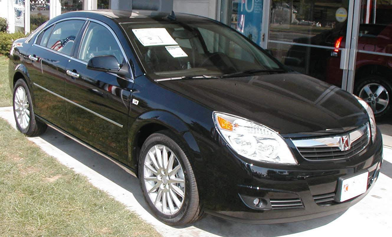 2007 Saturn Aura XR photographed in USA.